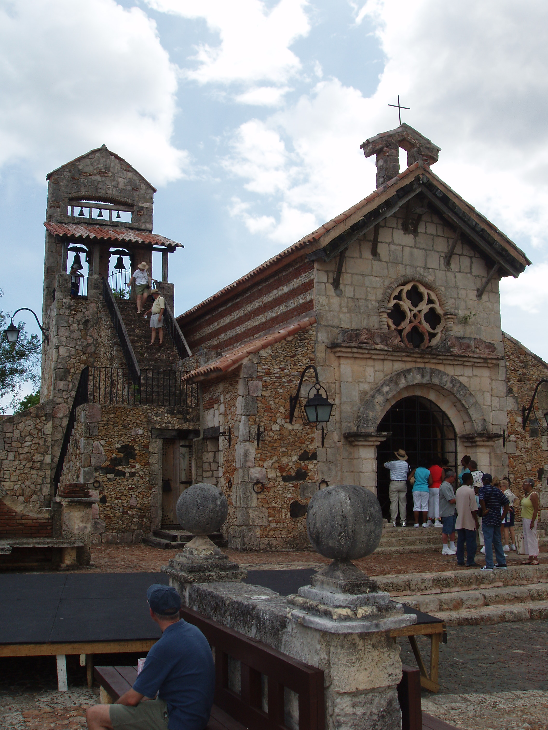 St. Stanislaus Church at Altos de Chavónin La Romana, Dominican Republic